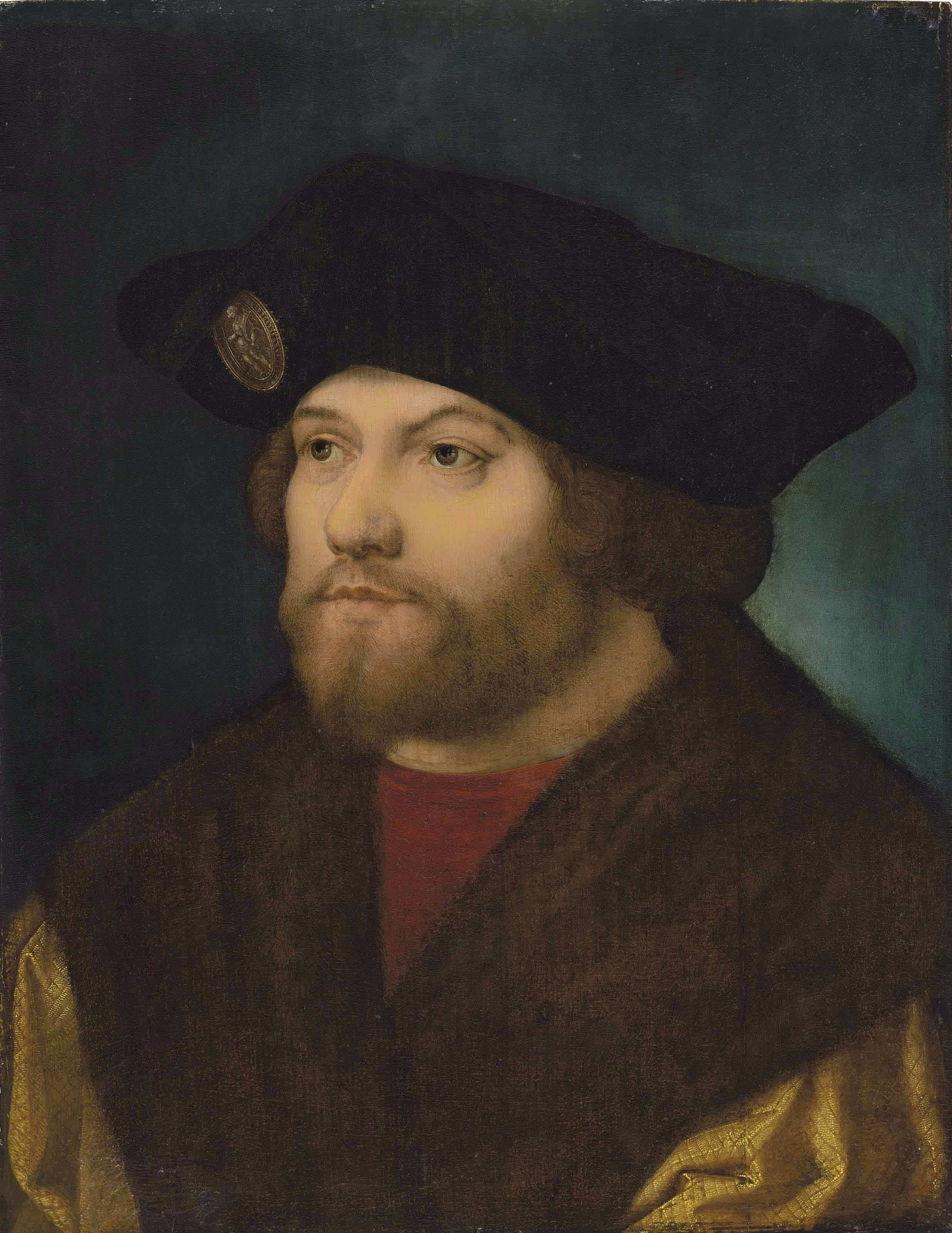 Portrait painting of Damião de Góis, oil on oak, maybe by Jan Gossaert or other unknown Flemish painter; It is based on a 1587 engraving by Philips Galle which got it's inspiration from a 1520/1521 drawing made by Albrecht Dürer. Unknow location.